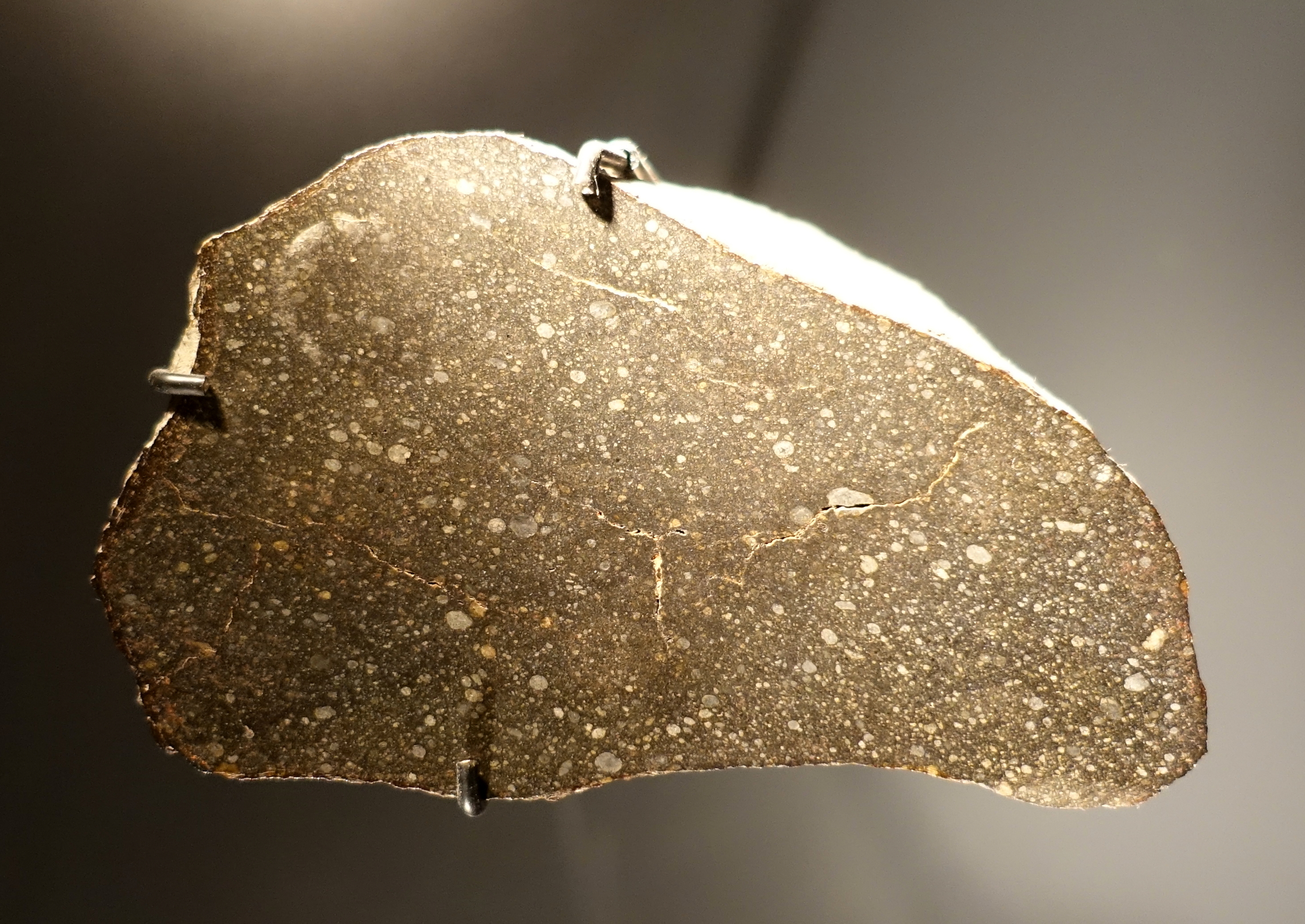 Exhibit in Museum für Naturkunde, Berlin, Germany.